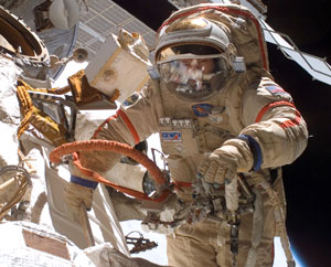 Astronaut Michael A. López-Alegría, Expedition 14 commander and NASA ISS science officer, participates in a 6-hour, 18-minute spacewalk on 22 February 2007 to retract a stuck antenna on a cargo spacecraft and perform some miscellaneous tasks. López-Alegría was joined by cosmonaut Mikhail Tyurin, flight engineer representing Russia's Federal Space Agency, for the add-on extravehicular activity. From NASA photo ISS014e14537 in public domain.